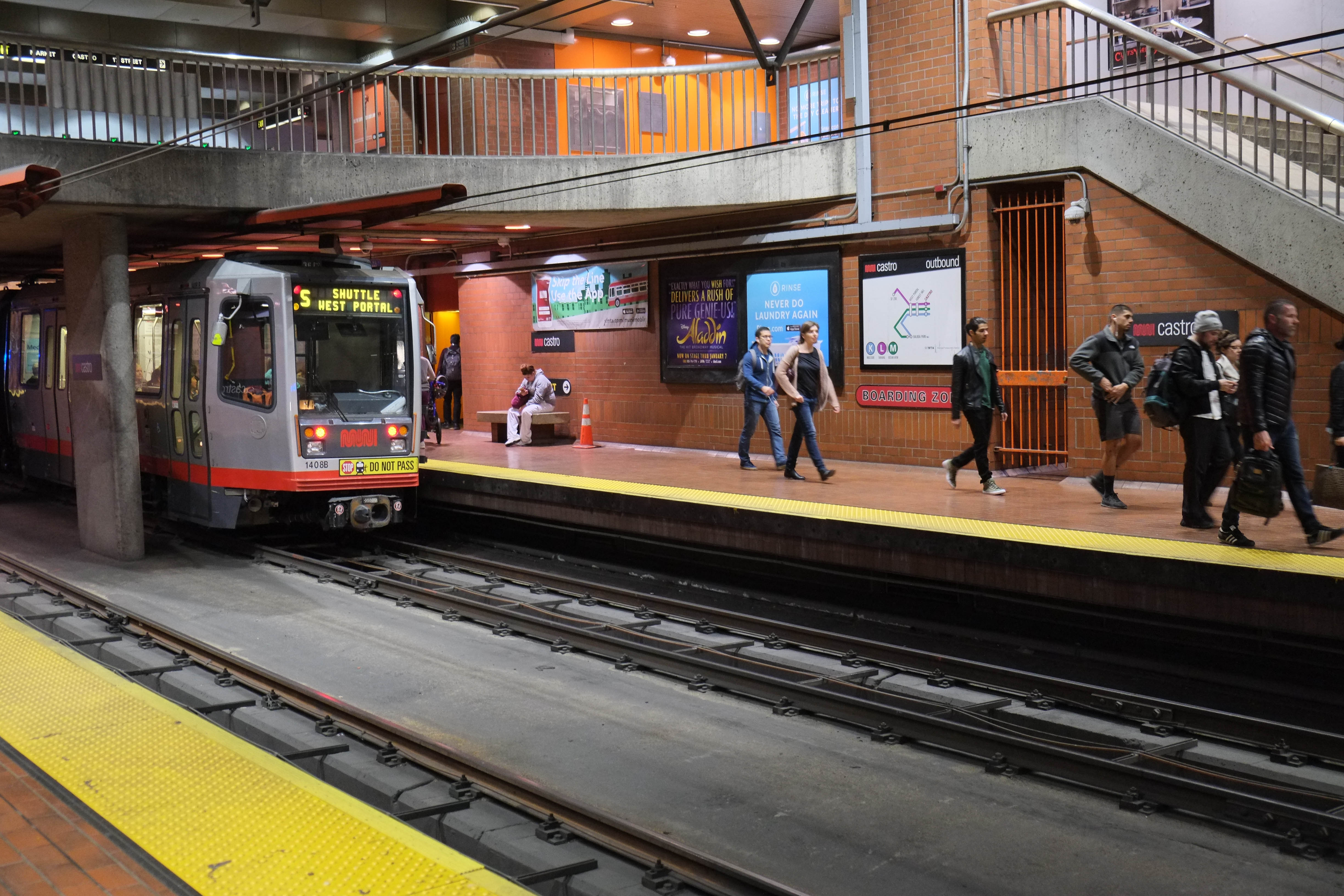 An outbound S Shuttle train at Castro station in December 2017